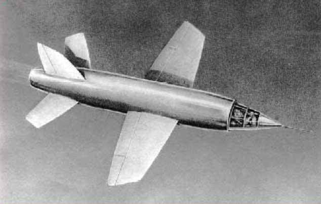 The Miles M52 - Built in 1943,designed to fly at 1000 miles per hour by Miles Aircraft to meet the perceived threat of a Nazi warplane. The project was cancelled by the British Government 3 months before it was due to fly, after they had given the designs to the United States of America. Many of the innovations in the design (such as fully moving tail control surfaces) appeared in the Bell x-1 and subsequent US experimental craft.